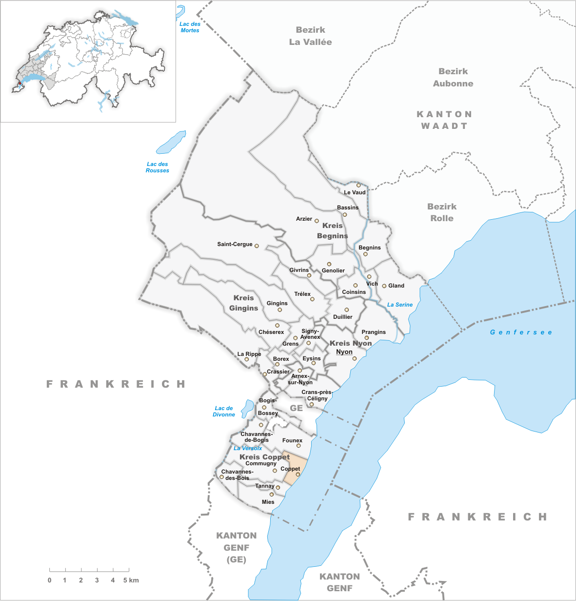 Municipality Coppet